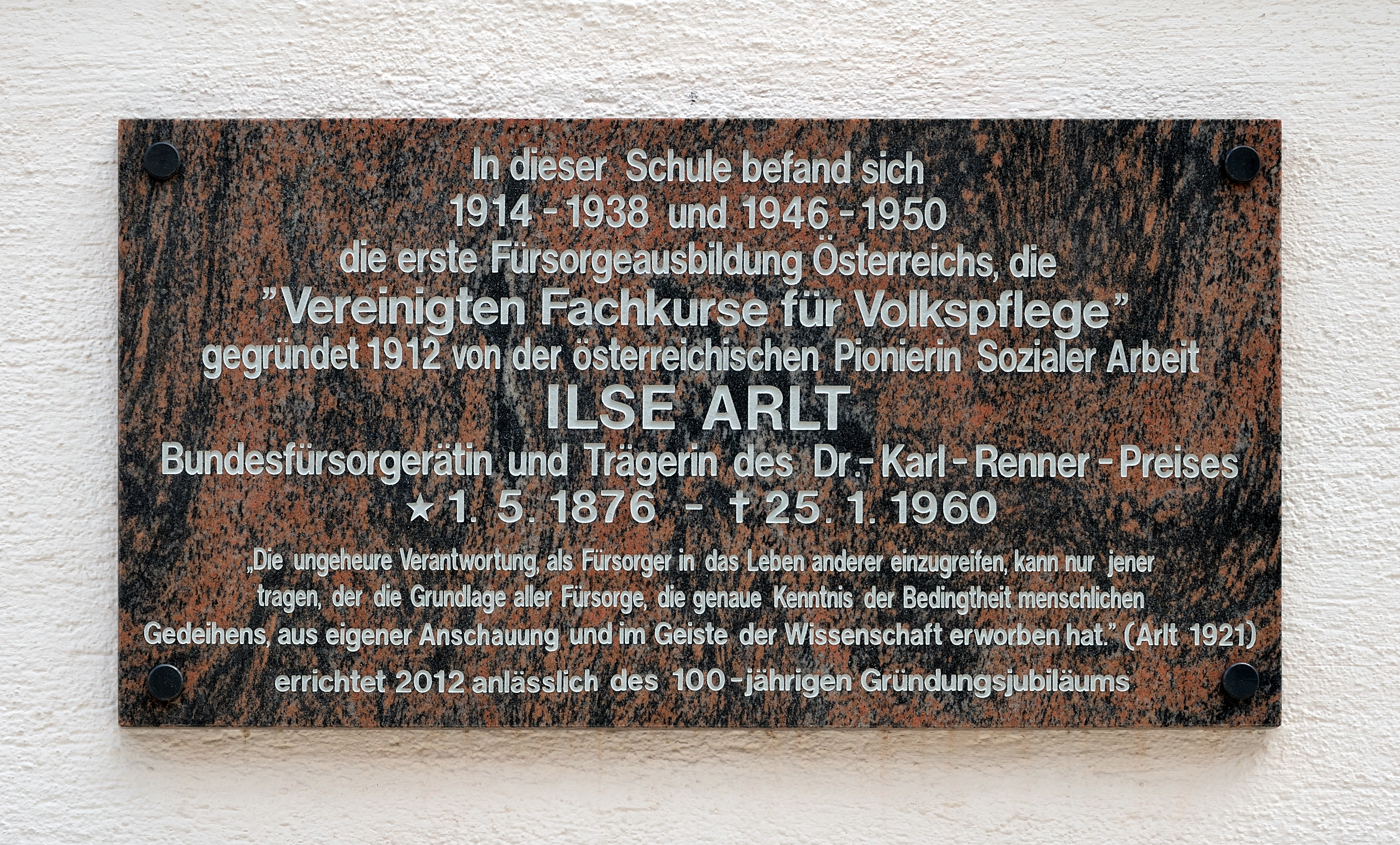 Plaque for Ilse Arlt at the facade of Albertgasse 38, a former school at Josefstadt, Vienna.